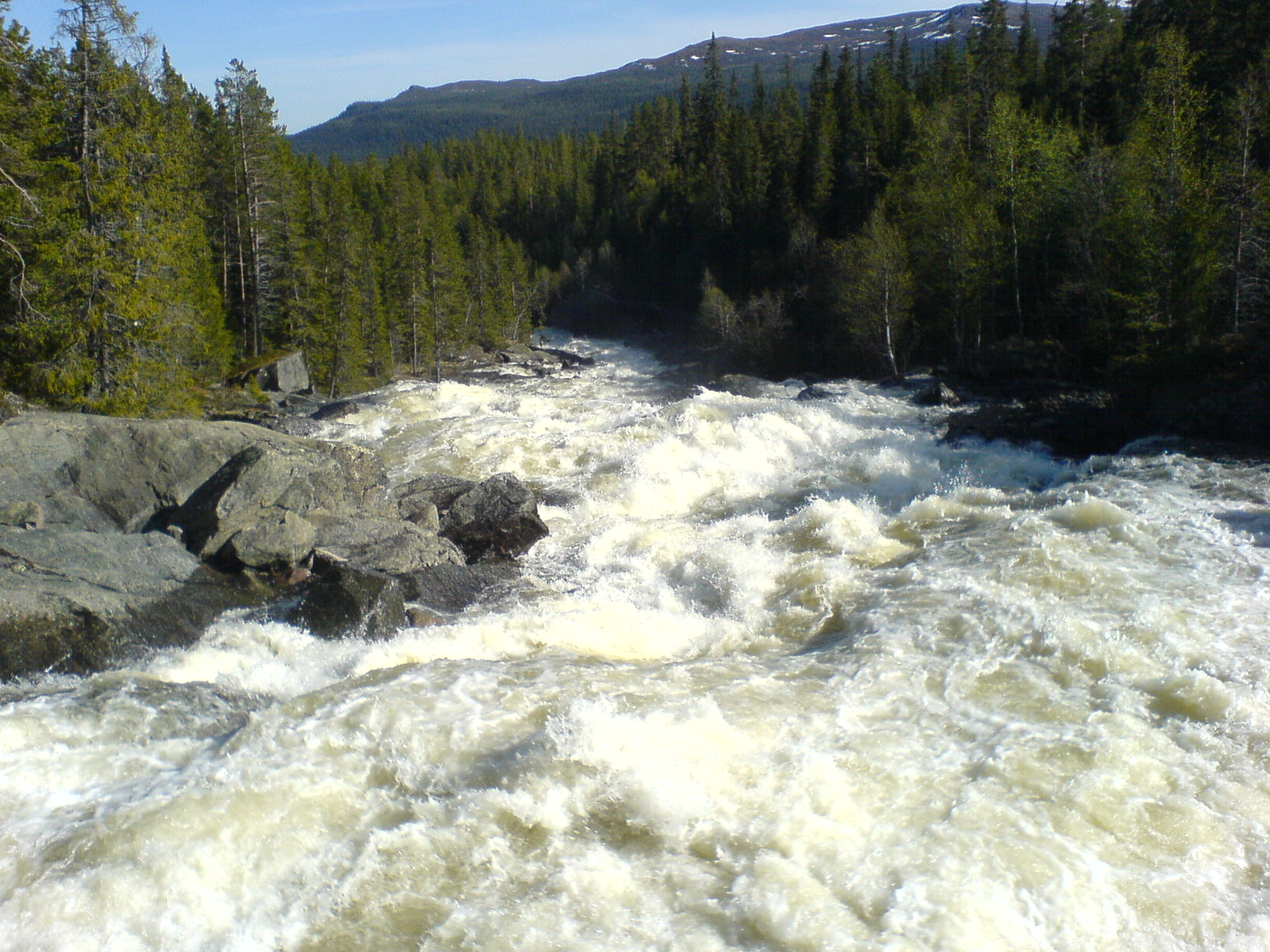 Waterfall nearby Tännäs in the Landscape of Härjedalen in Sweden.